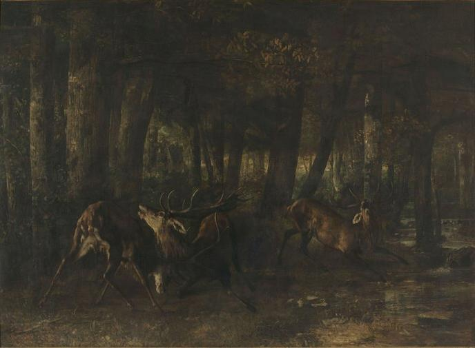 Spring Rut. The Battle of the Stags (1861) by Gustave Courbet, oil on canvas, 355 x 507 cm, Musée d'Orsay